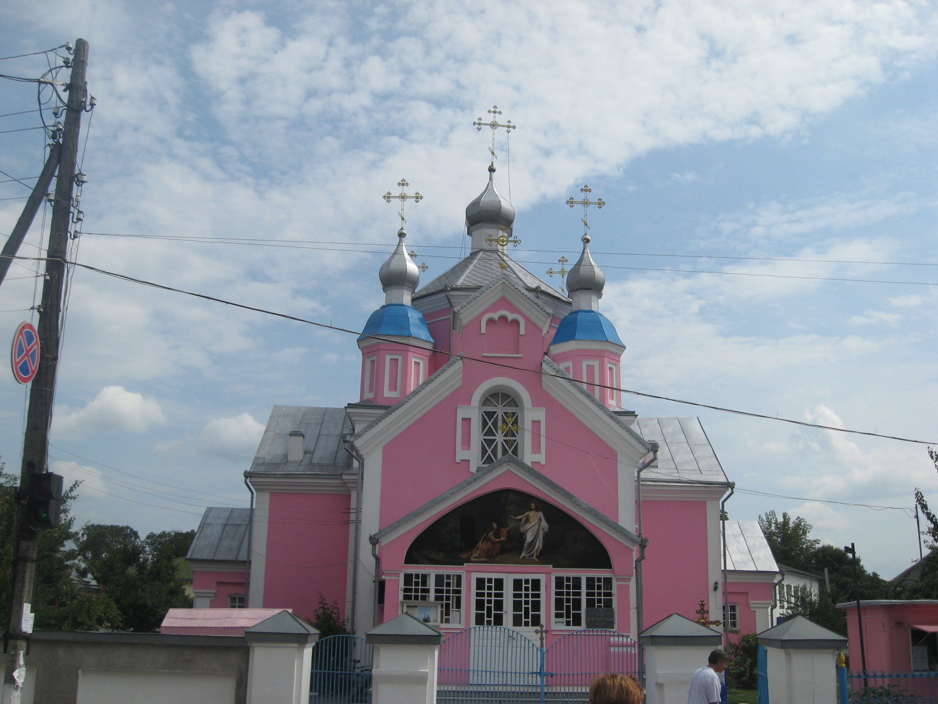 Holy Resurrection Cathedral in Kovel